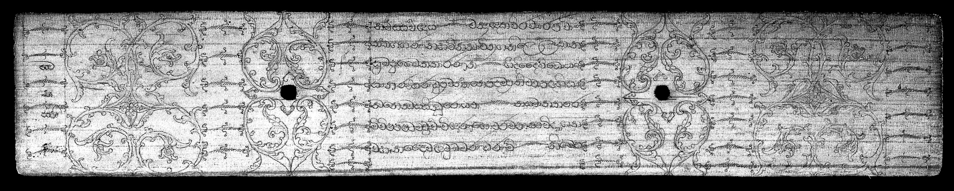 Painted wooden cover. Asian Collection